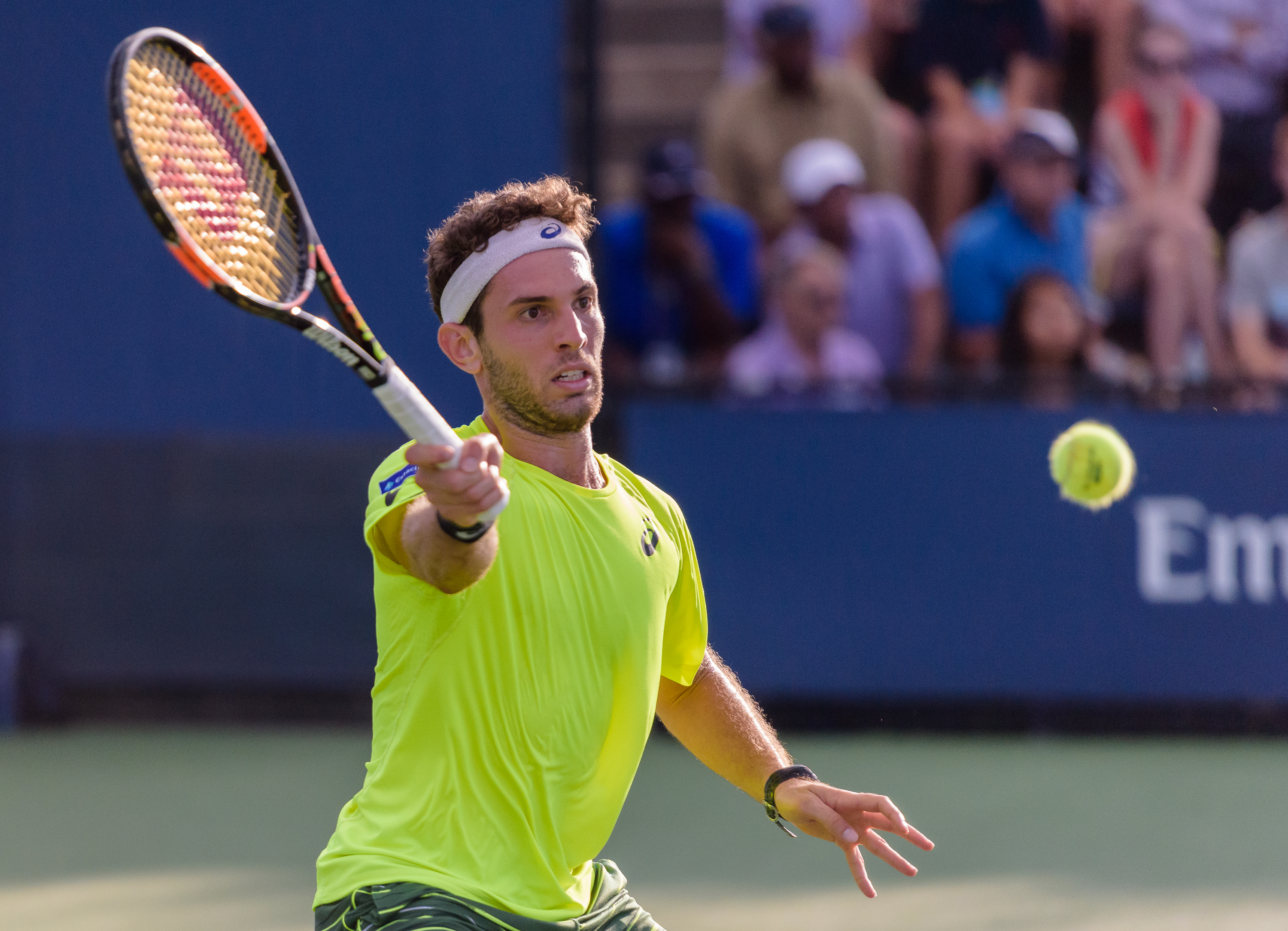 August 27, 2015 Court 11 Flushing, NY